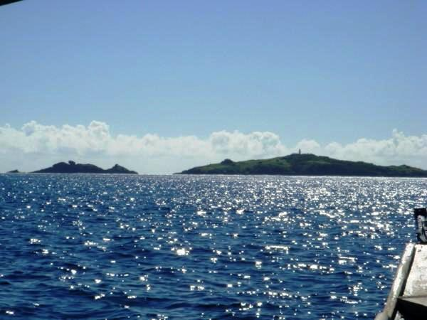 San Bernardino Islands, North of the Strait located between Allen Northern Samar and Bulusan, Sorsogon of Luzon.